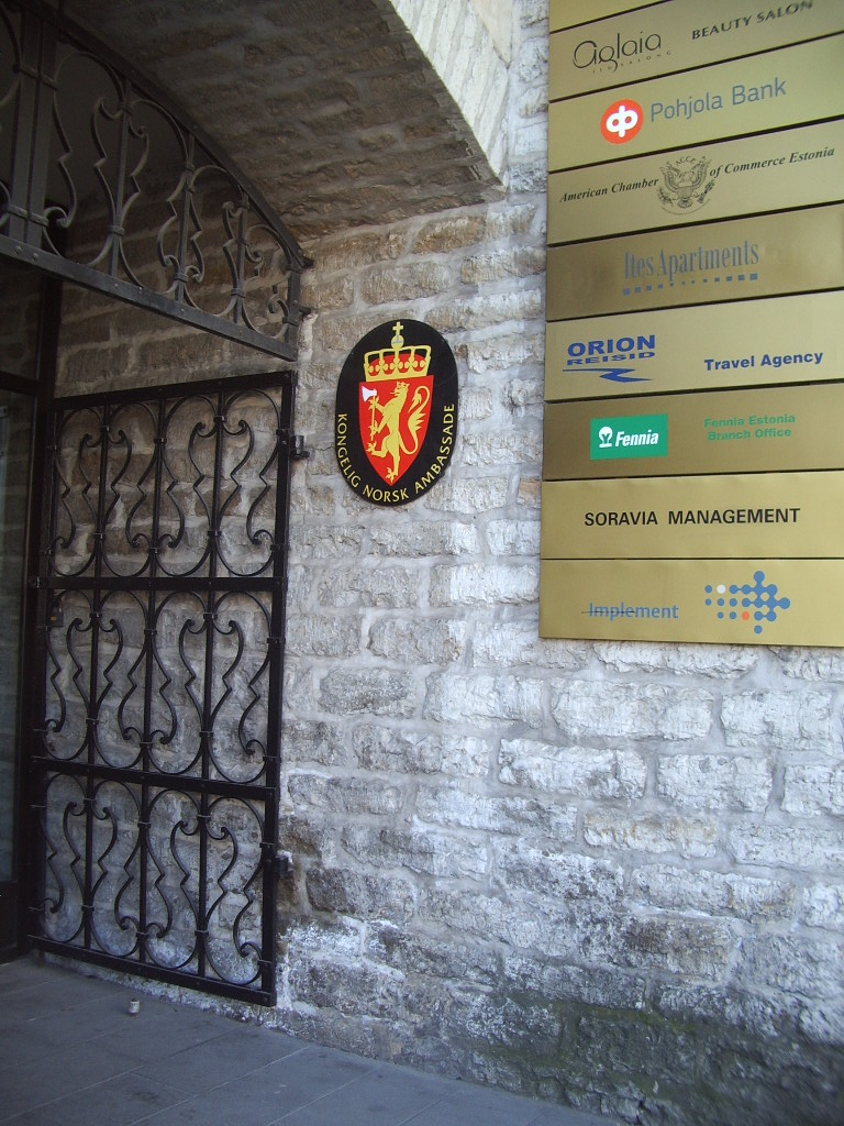 Norwegian Embassy in Tallinn, 6 Harju Street